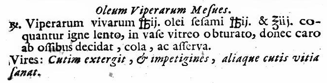 A snake oil recipe from 1751: "The viper oil of Mesues. Take 2 pounds of live snakes and 2 pounds 3 ounces of sesame oil. Cook slowly, covered in a glazed pot, until meat pulls away from bone. Strain and store. Uses: Cleans the skin, removes pimples, impetigo and other defects."